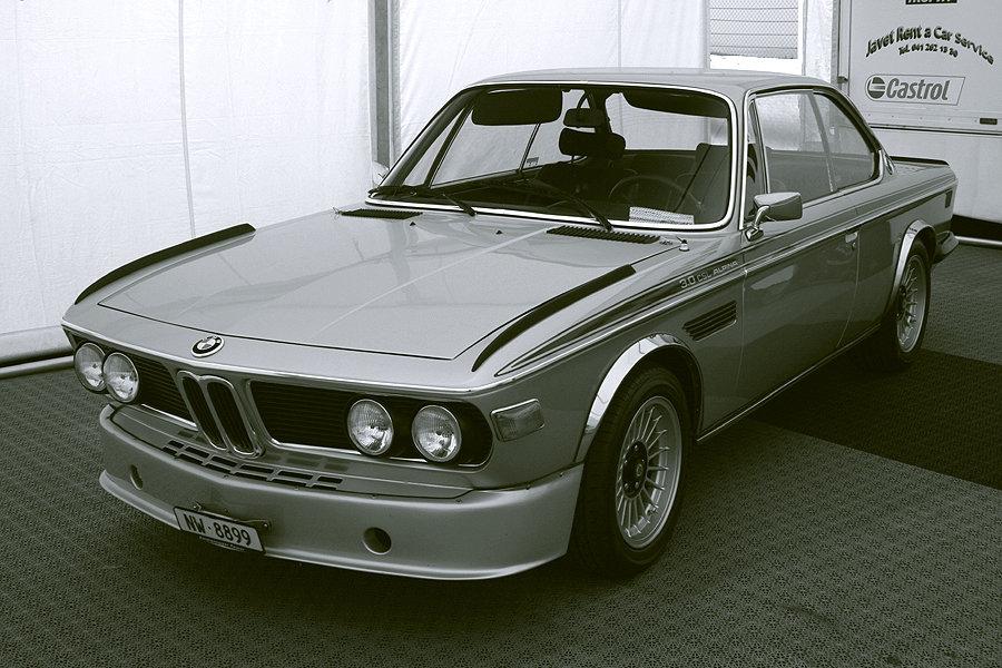 BMW 3.0 CSL Alpina